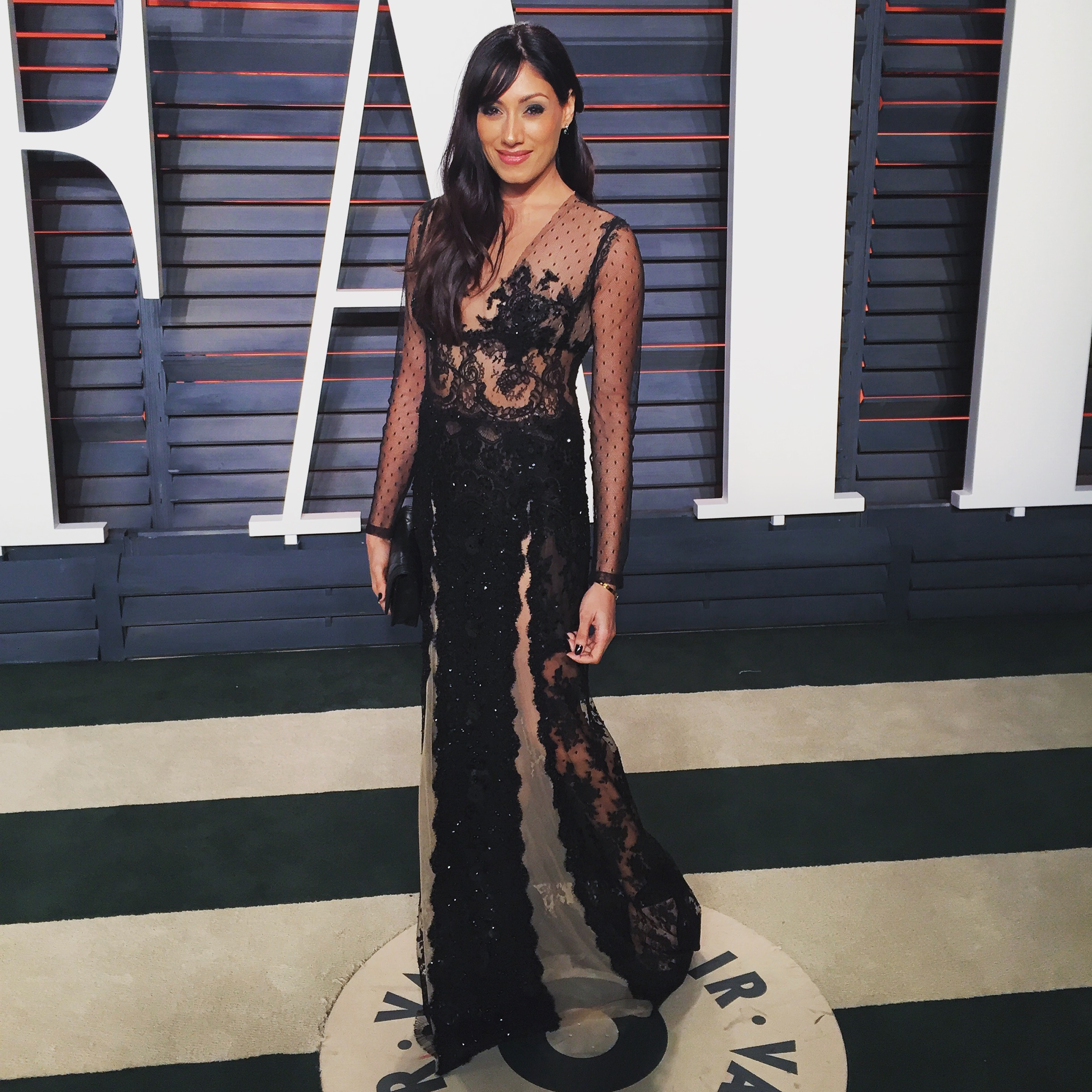 Tehmina Sunny at the 2016 VF Oscar Party Los Angeles